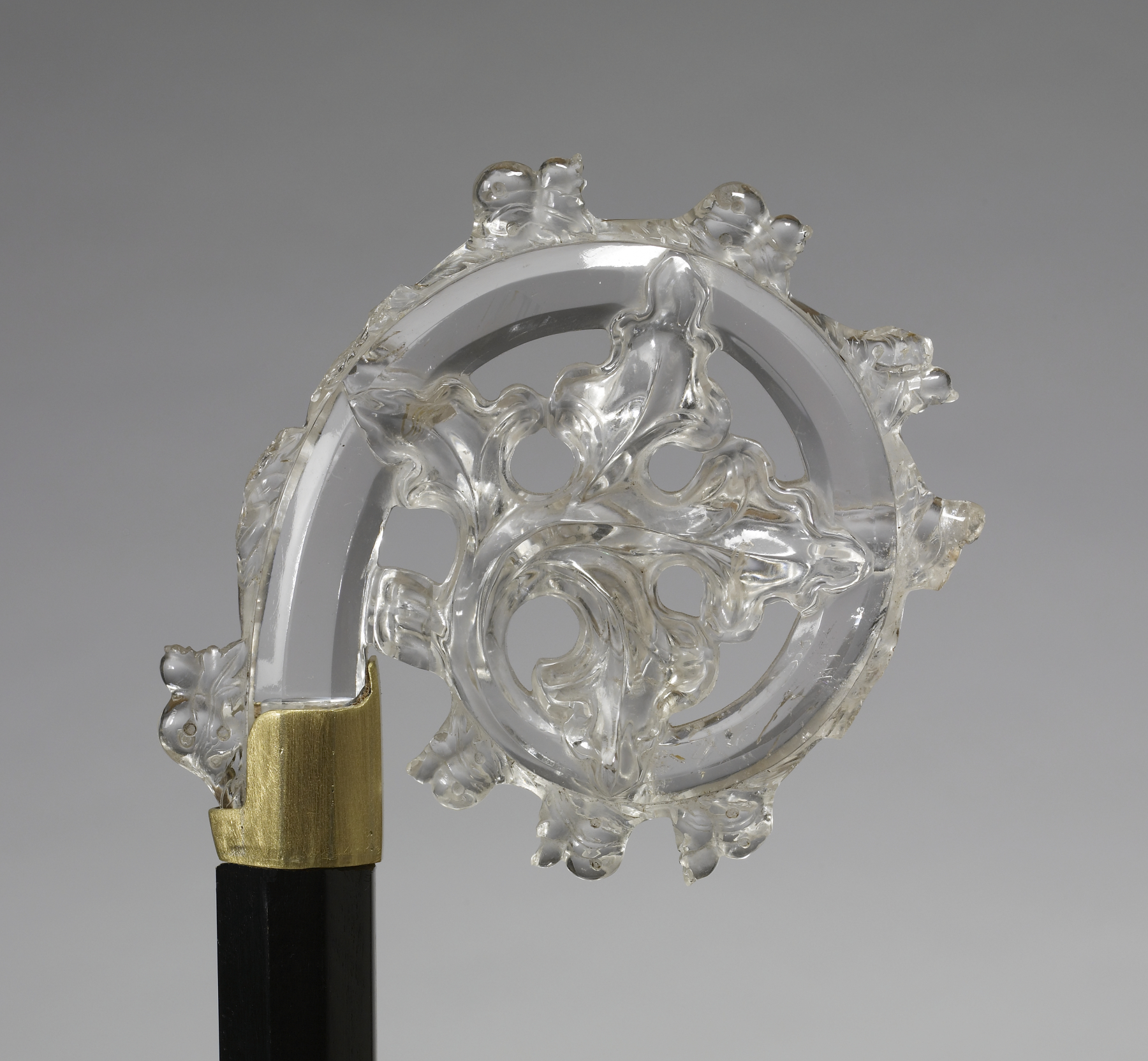 This rare and beautiful crozier represents the only known example made entirely of rock crystal, a hard stone that is very difficult to work. The skill of the carver can be seen in the smoothly arching leaves and the series of small hooks, called crockets, lining the outer edge. An abbess may have used a crystal crozier as a sign of her purity, a symbolic interpretation that dates back to the 9th century.